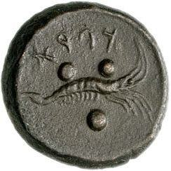 Sicily